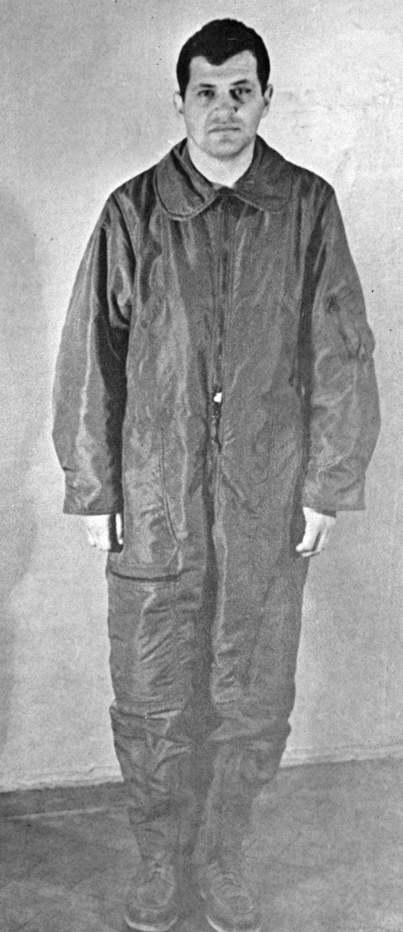 “American Spy Pilot Francis Gary Powers”. American spy pilot Francis Gary Powers whose Lockheed U-2 reconnaissance plane was shot down by a Soviet surface-to-air missile outside Sverdlovsk.